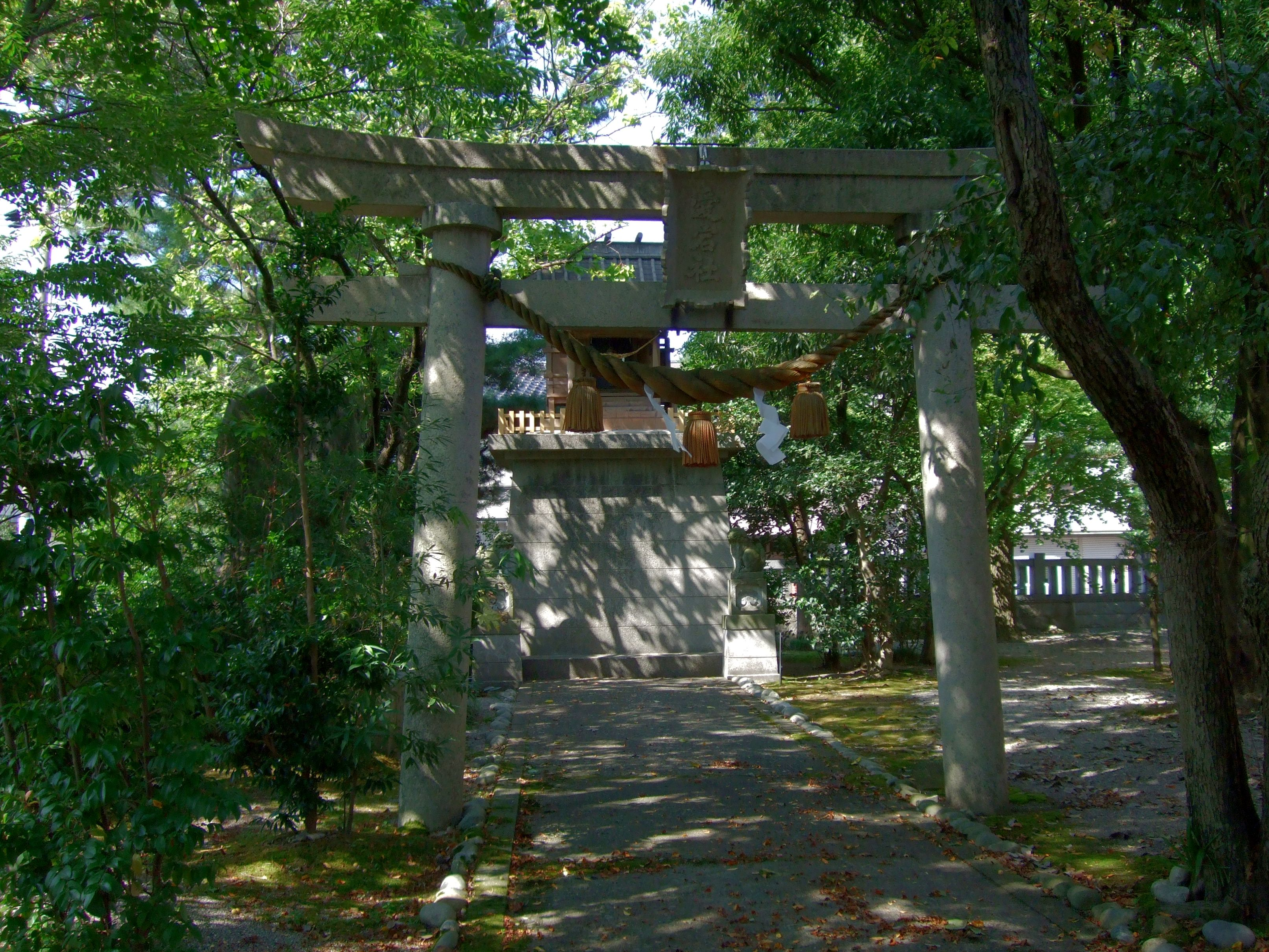 Atago-sha(Shinto shrine) in Chuou-doori, Uozu, Toyama, Japan.